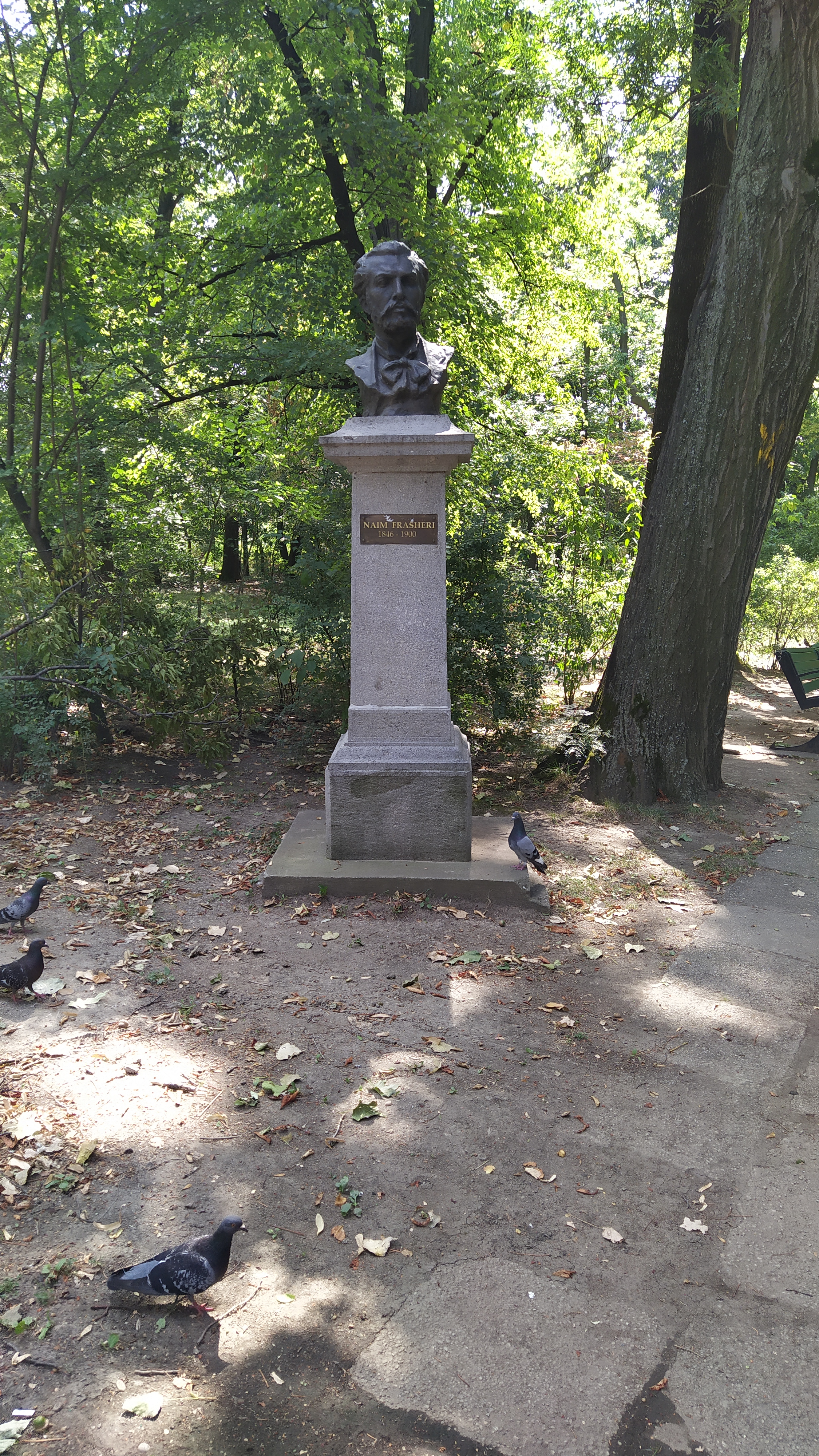 Naim Frashëri statue at Kint Mihai I Park Bucharest, Romania